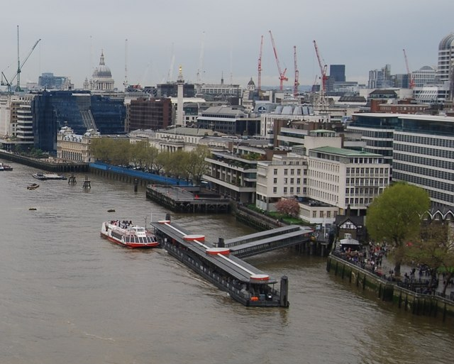 Tower Pier